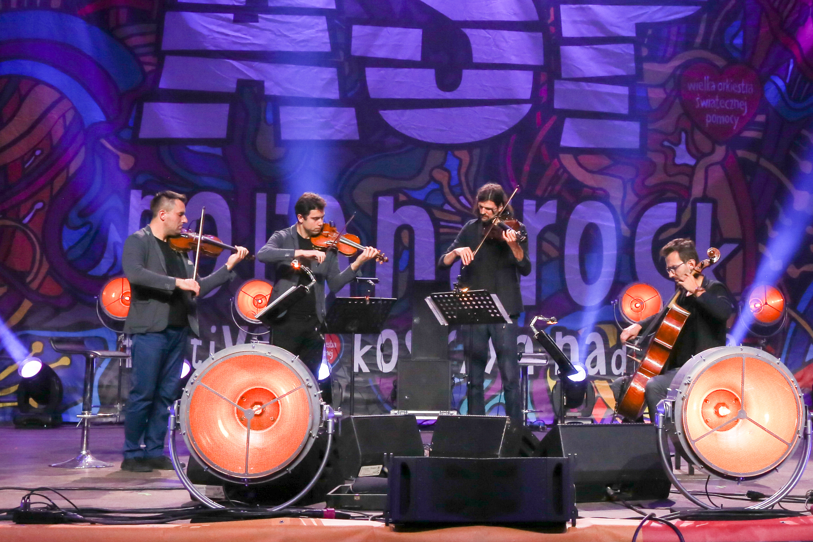 Pol'and'Rock Festival in 2019.